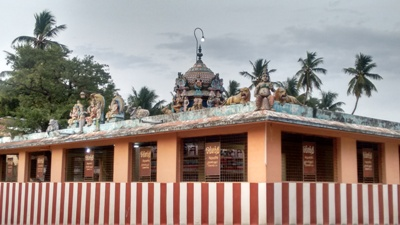 Valangaiman mariamman temple வலங்கைமான் மாரியம்மன் கோயில்